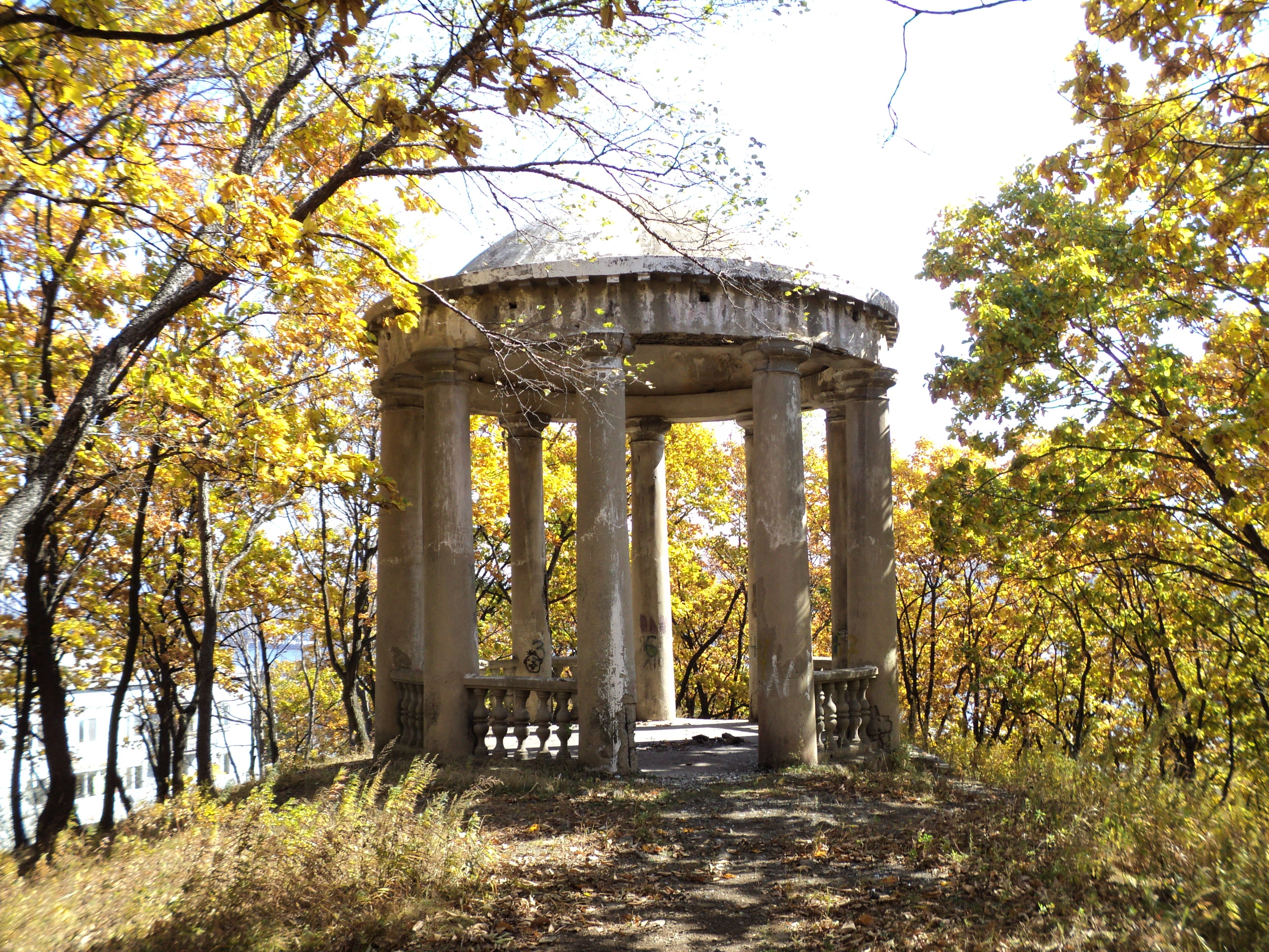 Nakhodka, Russia